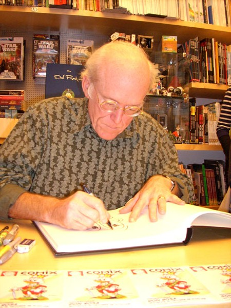 Don Rosa 2008 in Hannover, Germany (Don Rosa Deutschland Tour)